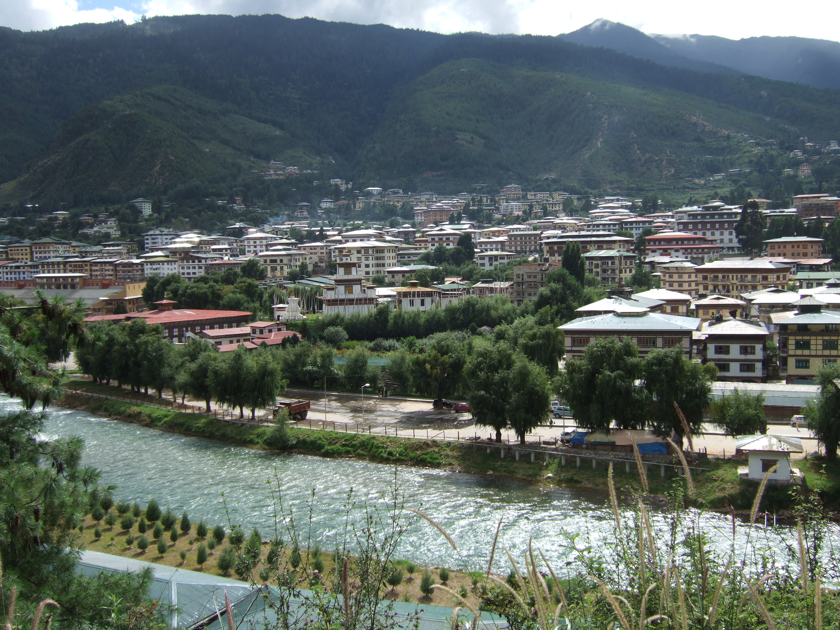 View of the center of Thimphu. Taken from opposite side of the river from the main town looking west.